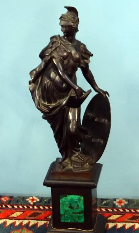 Bronze sculpture of Bellona, 17th century.